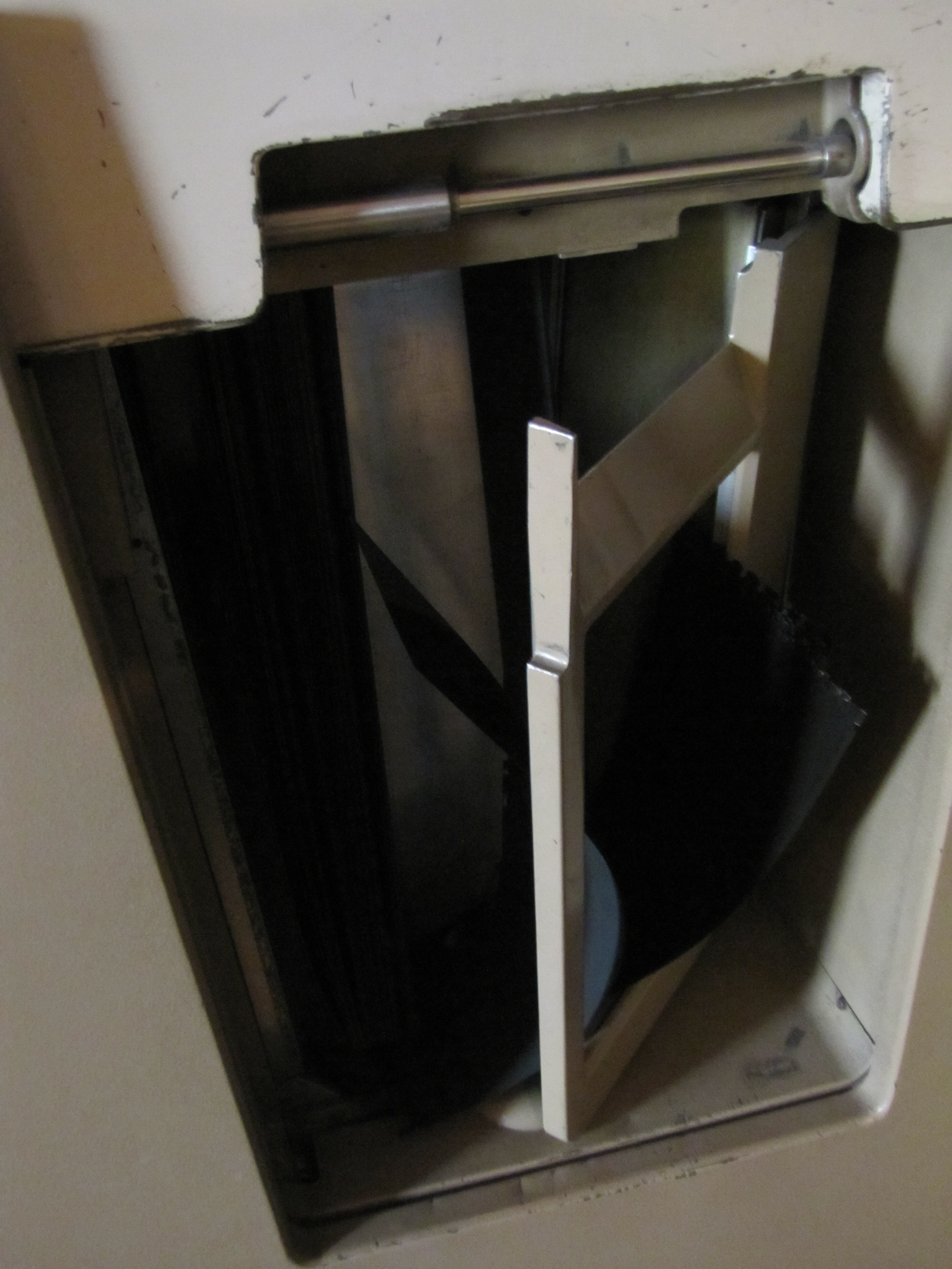 Photo taken in Warsaw Museum of Technology.